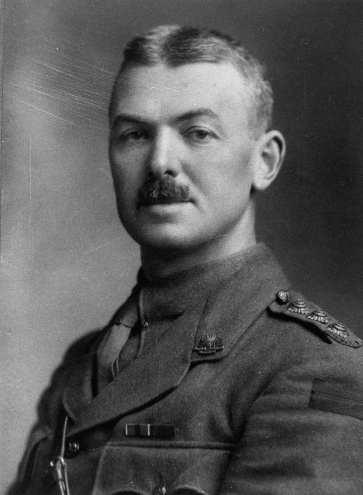 Major Burford Sampson, D.S.O.V.D of the 15th Battalion A. I. F. He assumed command on the death of little 'Mac' until handing over at Jeancourt 17 September 1918 to Lieutenant Colonel C. M. Johnson, D.S.O, on the eve of the attack on the Hindenburg Outpost Line. (Description supplied with photograph).